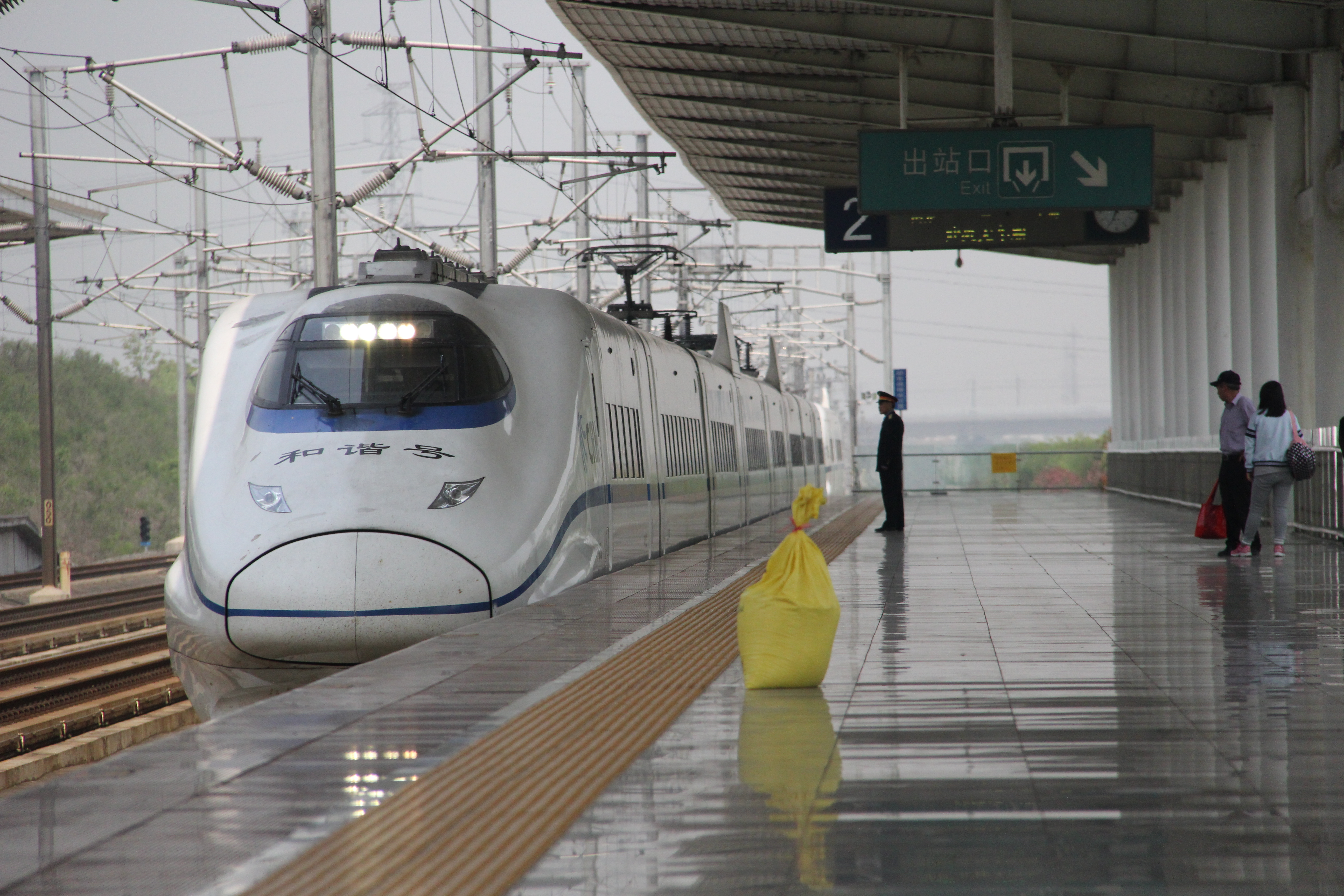 201604 G7049 enters into Dantu Station